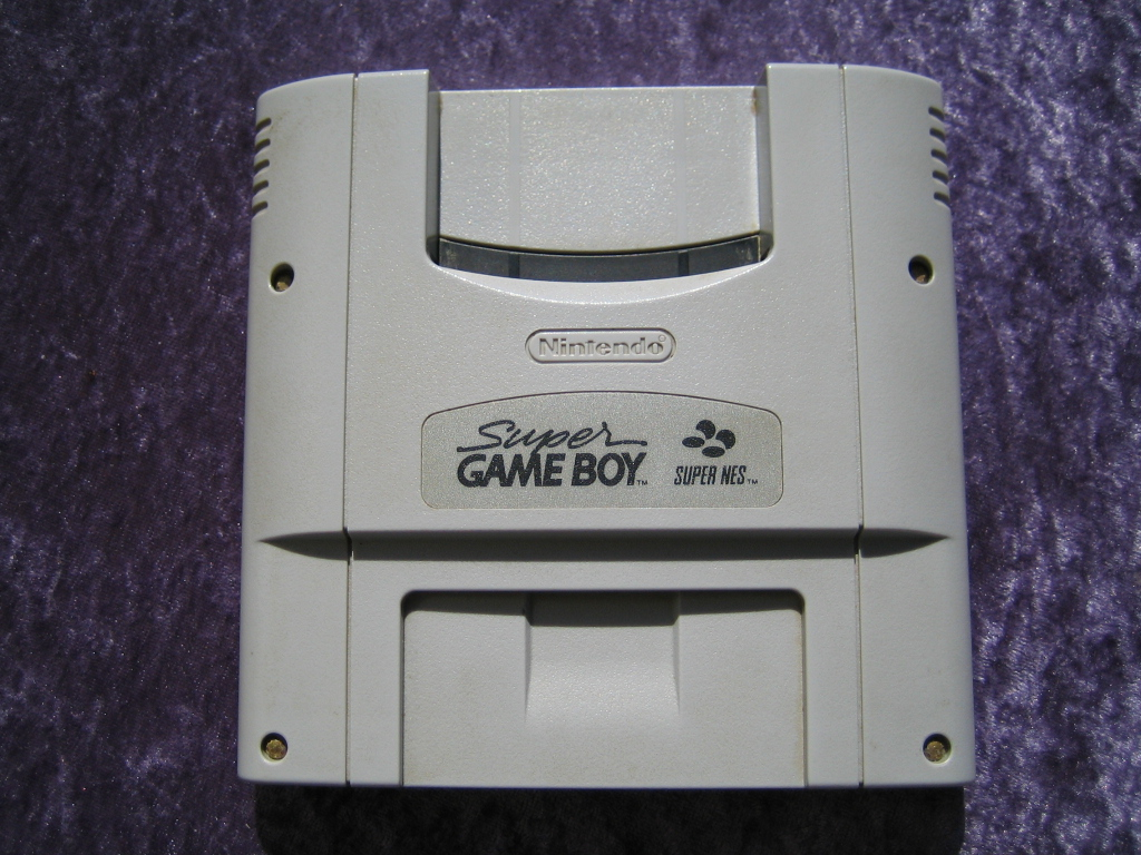 Nintendo Super Game Boy (European version)